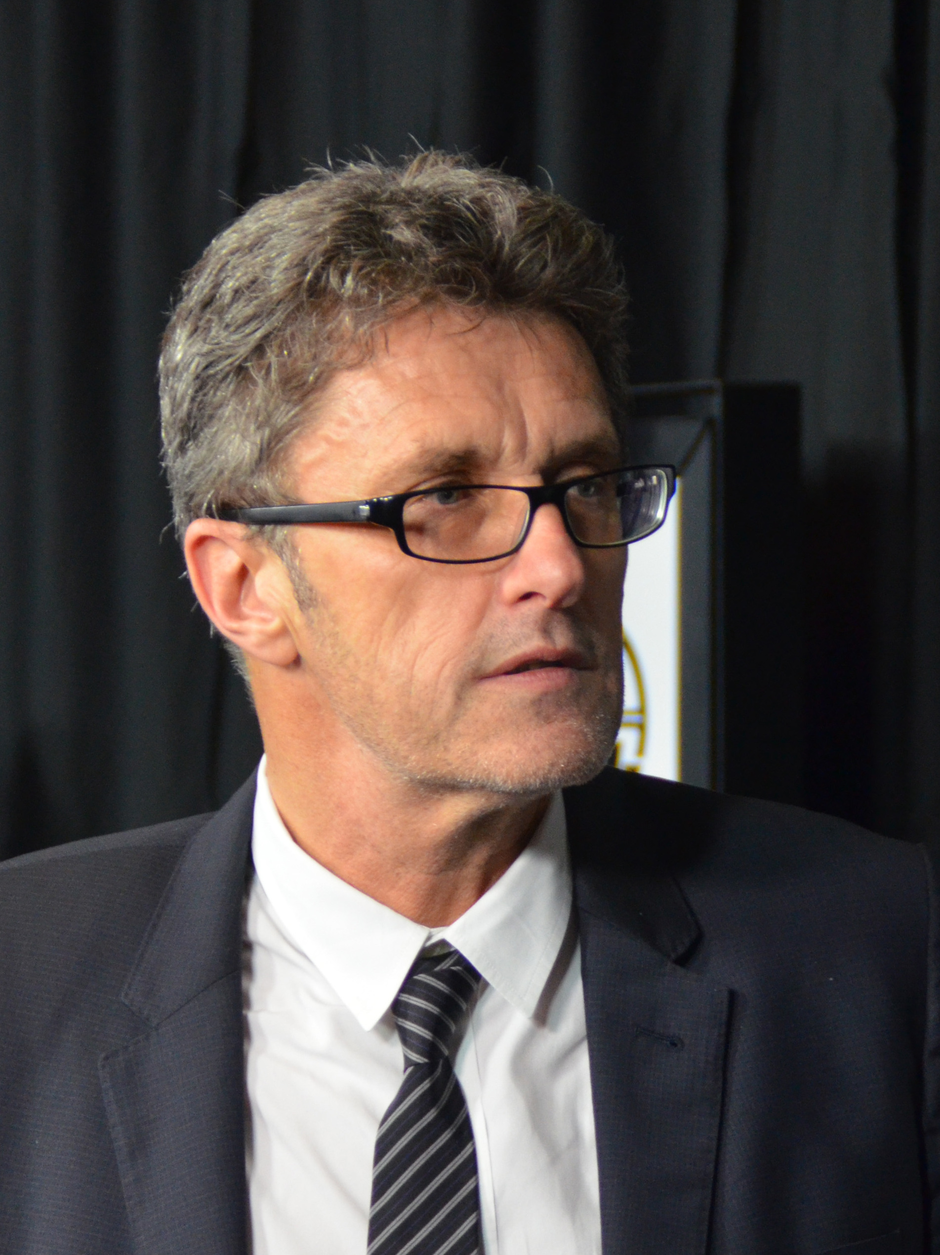 Pawel Pawlikowski, a Polish-British filmmaker.